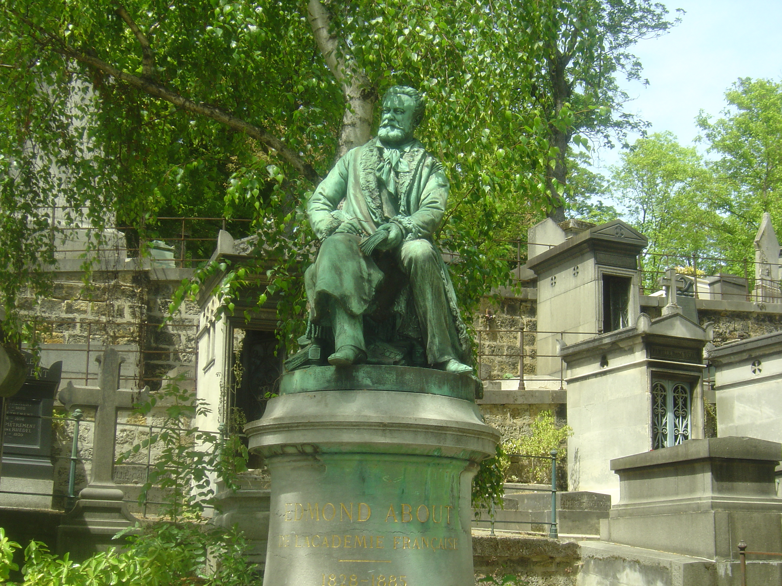 Tomb memorial of Edmond About, Paris